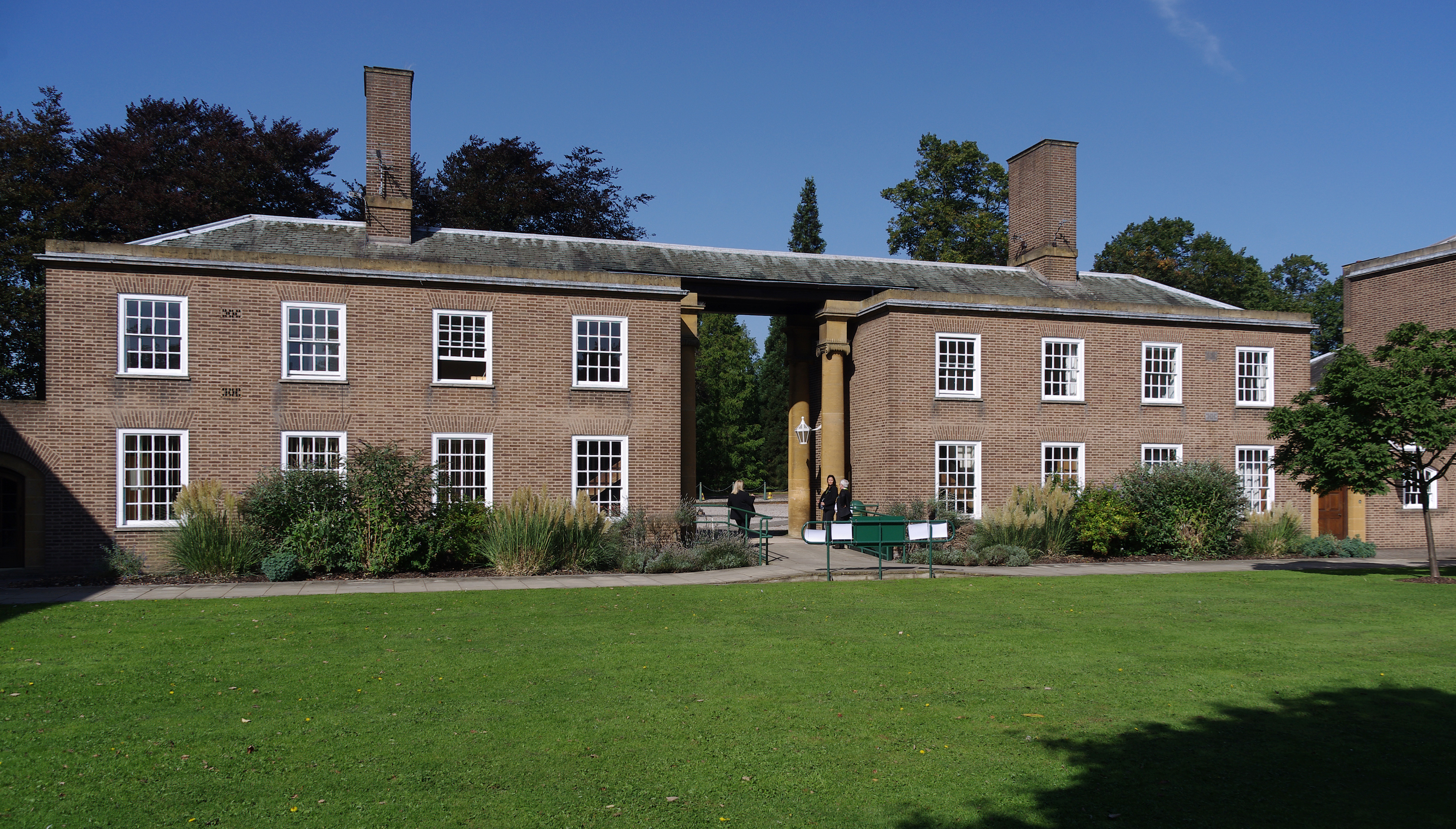 The quad of Cripps Hall at the University of Nottingham.